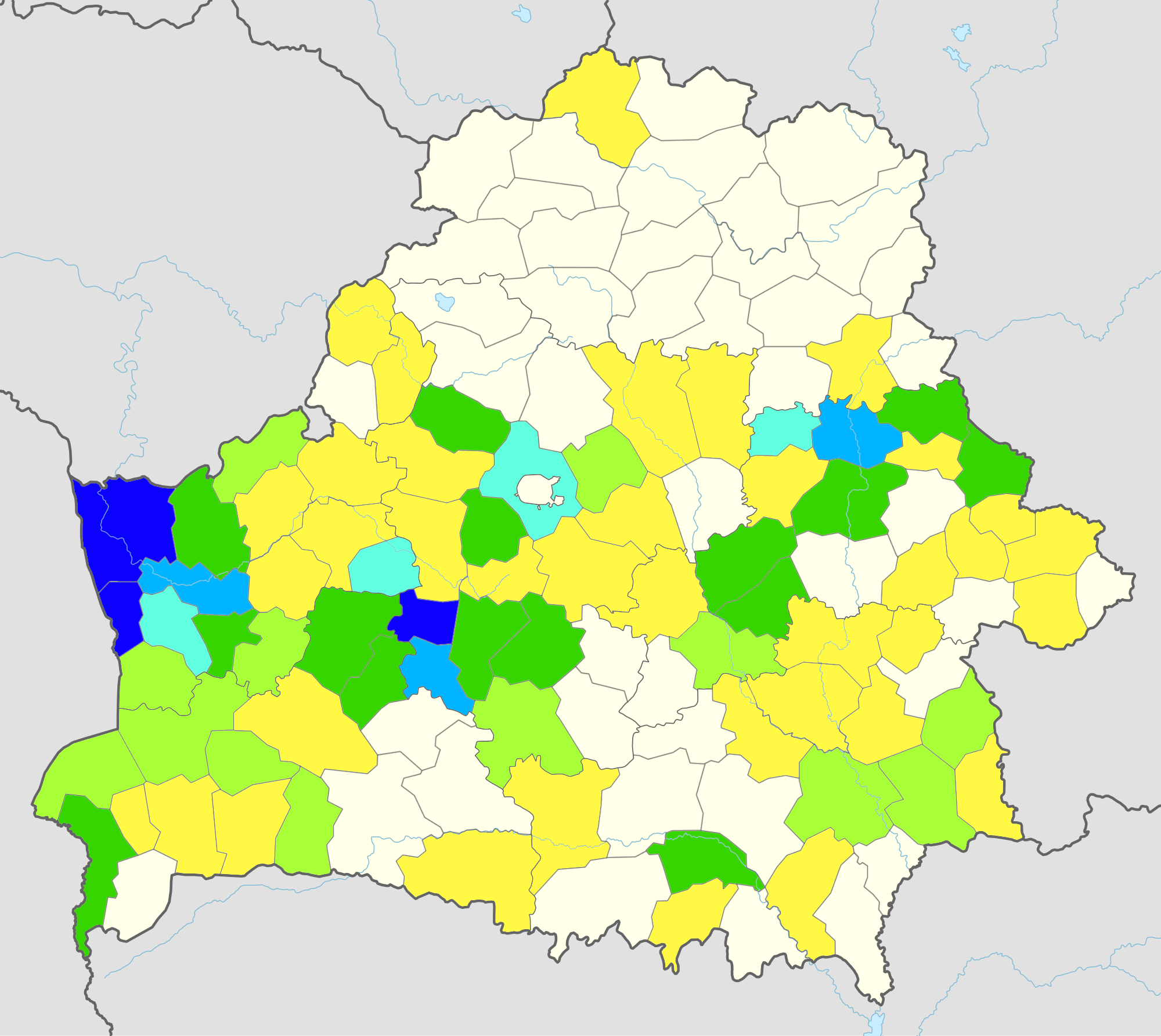 Cereal yields in Belarus in 2013 by districts: Dark blue — over 5000 kg per ha (50 metric centners per ha) Blue — 4500-5000 Light blue — 4000-4500 Green — 3500-4000 Light green — 3000-3500 Yellow — 2500-3000 White — 2000-2500